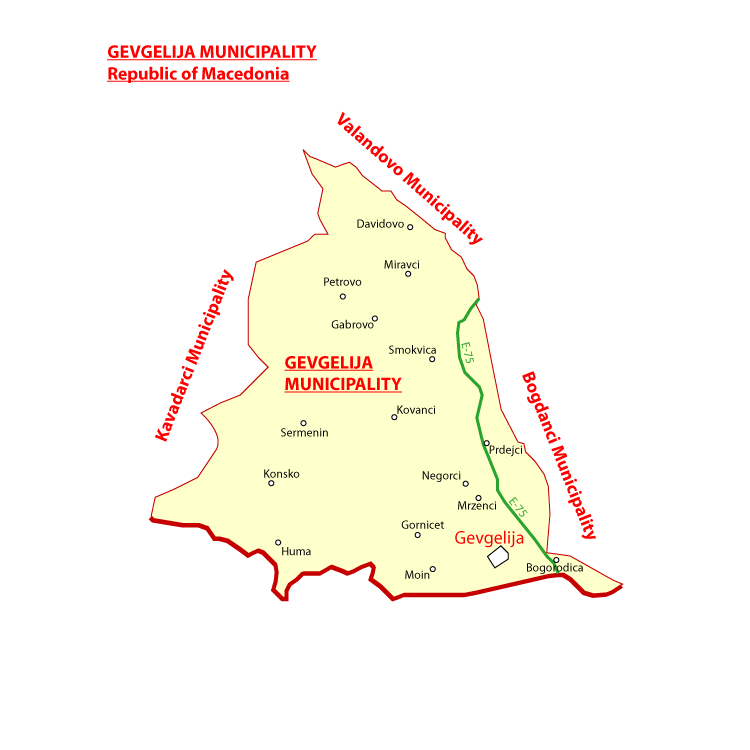 Map of the Gevgelija Municipality. It features the outline of the municipality, the villages in the municipality, Gevgelija, the E-75 freeway and names of the surrounding Macedonian municipalities.